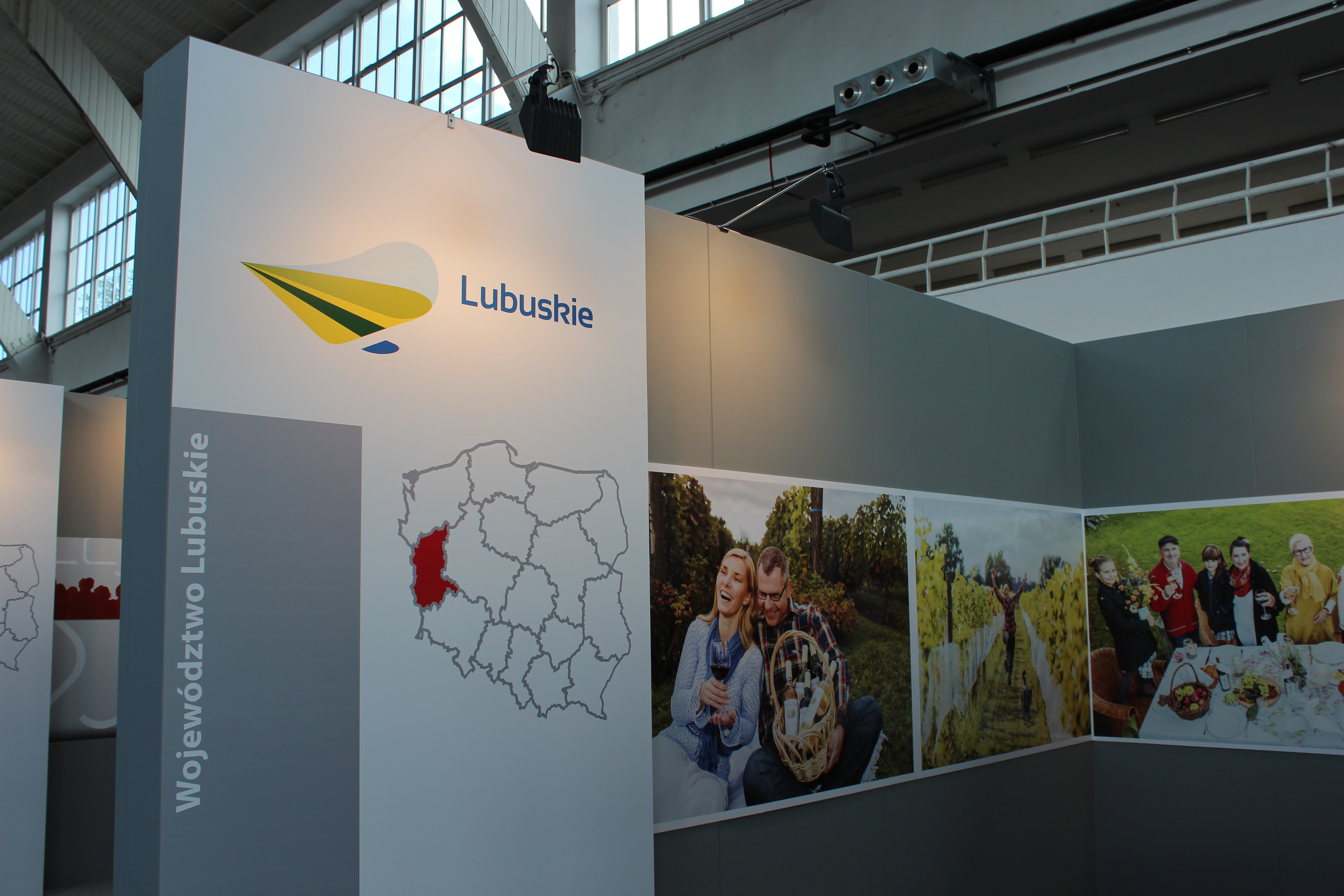 2nd General National Exhibition "Competitive Poland 1989-2014" - voivodeships presentation